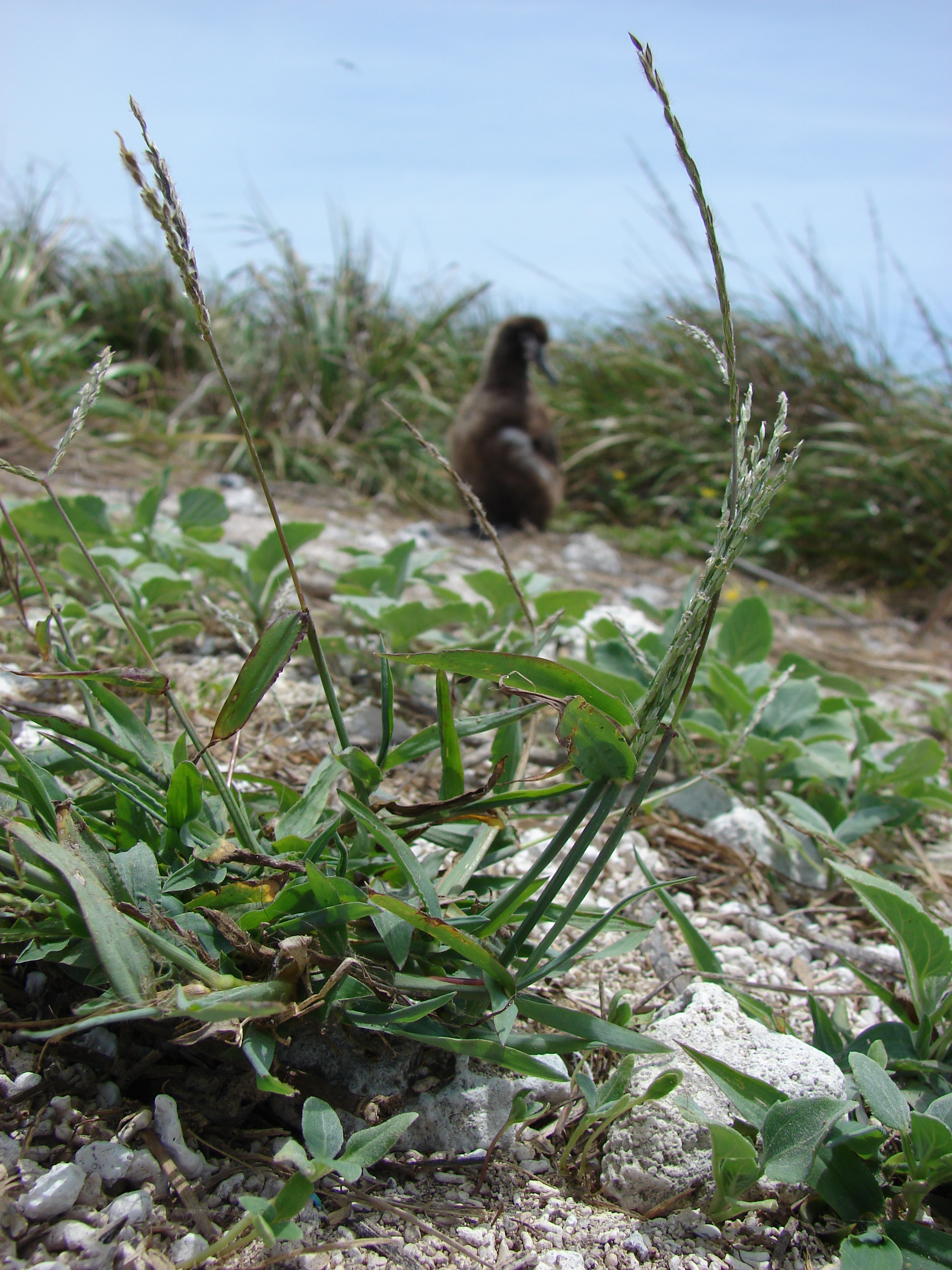 Digitaria ciliaris (habit). Location: Midway Atoll, Abandoned runway Eastern Island